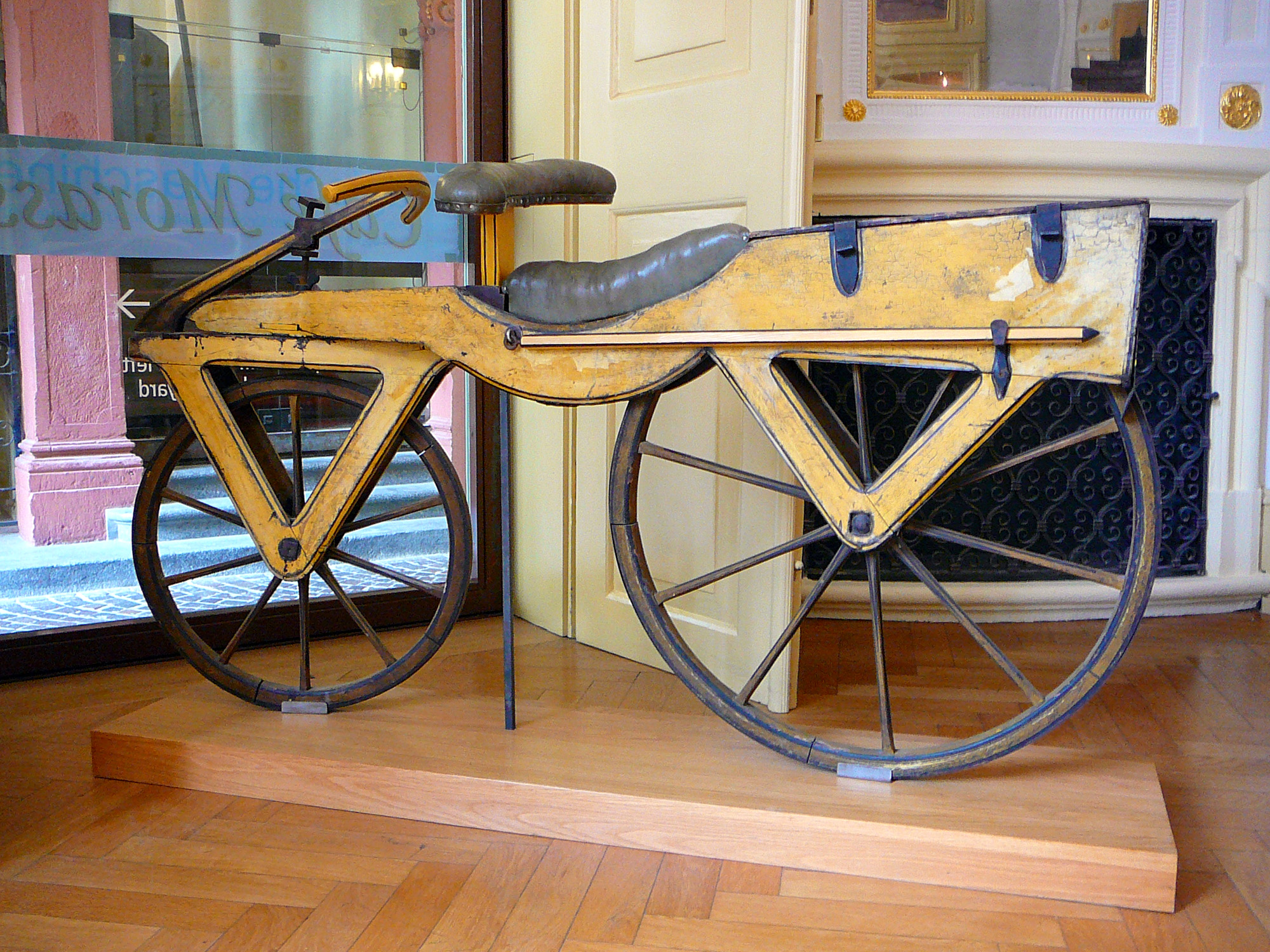 Draisine, also called Laufmaschine ("running machine"), from around 1820. The Laufmaschine was invented by the German Baron Karl von Drais in Mannheim in 1817. Being the first means of transport to make use of the two-wheeler principle, the Laufmaschine is regarded as the archetype of the bicycle. The above Draisine was built with cherry tree wood and softwood. It is displayed at the Kurpfälzisches Museum in Heidelberg, Germany (Inv.-No. GH 98).